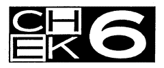 CHEK TV's logo in the 90s History of Image:Chek6.gif 2008-08-31T18:19:36Z Emarsee (Talk | contribs) (386 bytes) ( Non-free media rationale|Article=CHEK-TV|Description=CHEK-TV logo from the 90s|Source= during CHEK's 50th anniversary. |Portion=Logo|Resolution=Low res|Purpose=To illustrate the articles for CHEK TV, as part of the s) 2008-08-31T18:19:35Z Emarsee (Talk | contribs) (240x100) (2665 bytes)